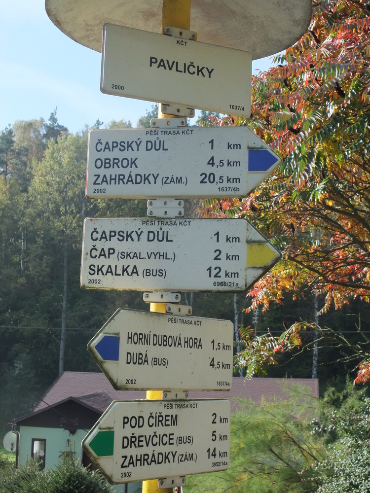 Česká Lípa District, Liberec Region, the Czech Republic. Guidepost Pavličky